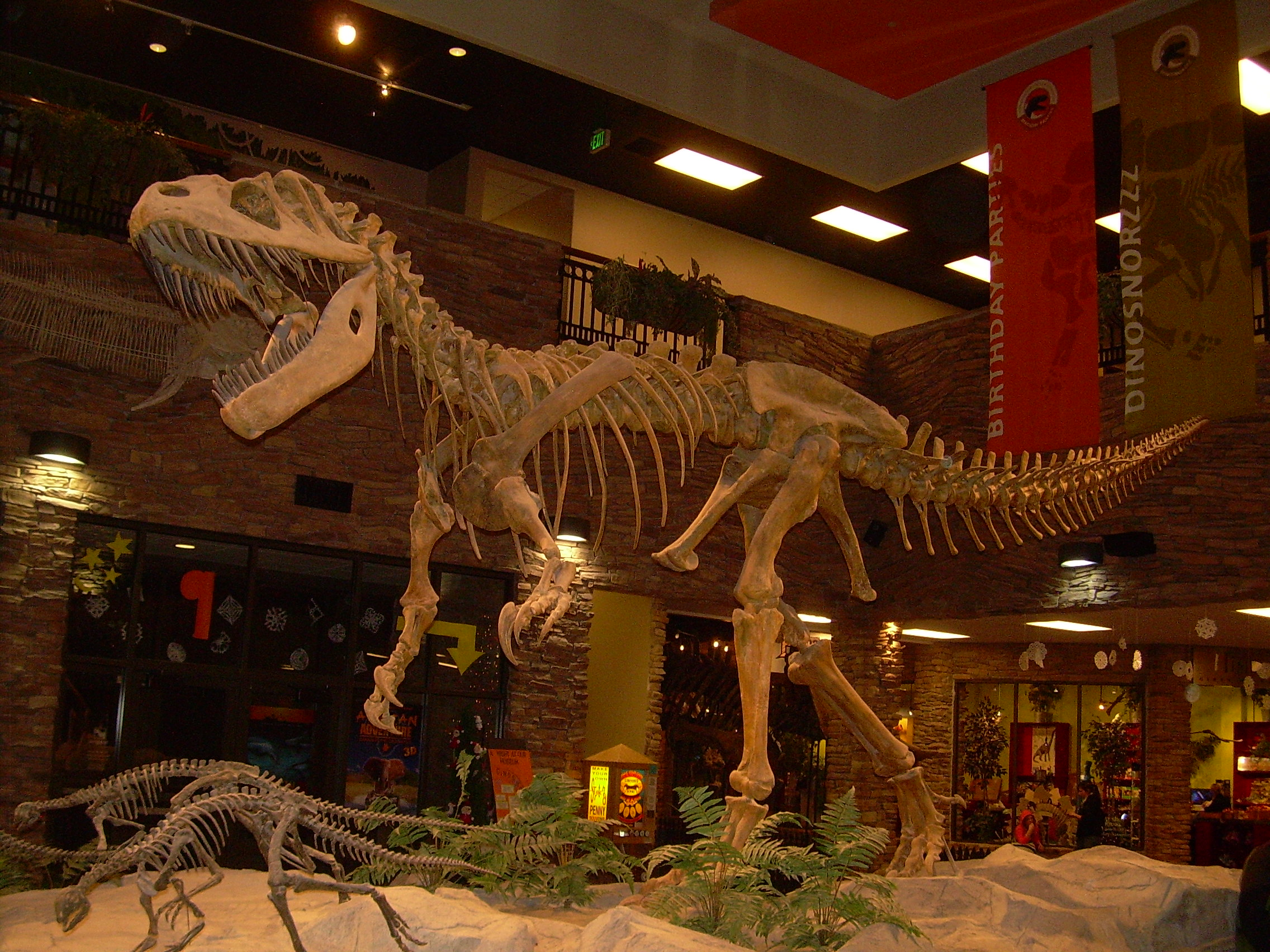 Photograph of a cast of a Torvosaurus tanneri skeleton (shown chasing two Othnielia rex skeletons) taken at the North American Museum of Ancient Life.